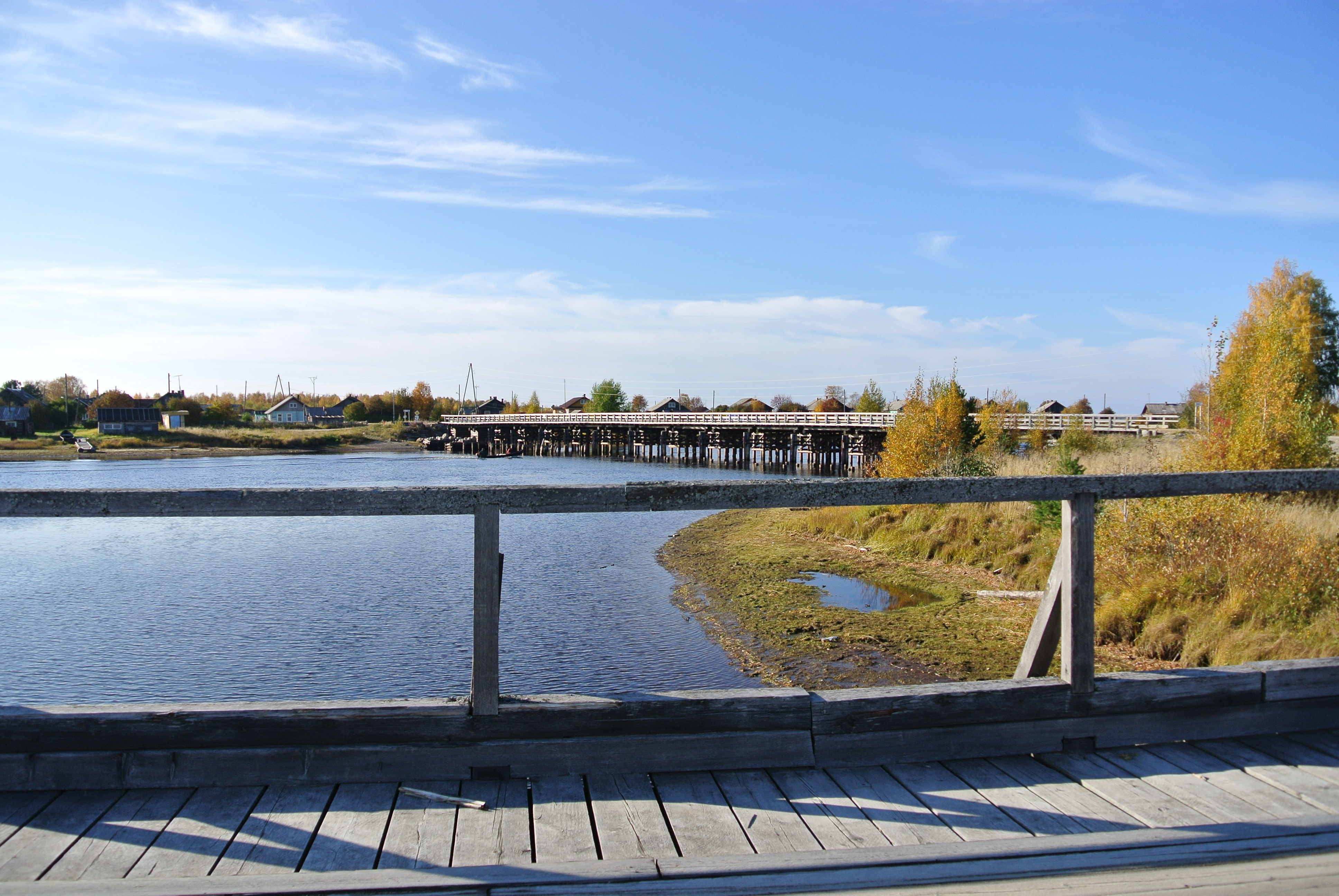 Road bridges over river Chirka-Kem in Yuskozero